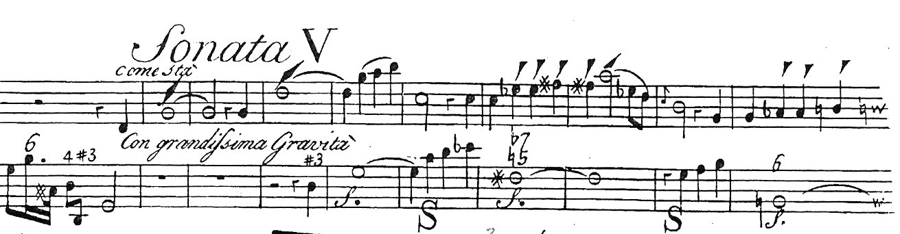 Detail of the 1st edition of Francesco Maria Veracini's Sonata V op. 2: graphic indications for the "messa di voce".